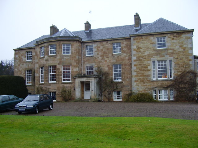 Eaglescairnie House Eaglescairnie - 'The church by the rocks' It is believed there has been a house on this site since the 12th century when Emma de St. Hilary married William de Vetereponte (Vipond) at Bolton. A descendent, Katherine Chisholm married Walter Haliburton of Dirleton in 1432 and the house continued to pass down through the generations. That line ended in 1919 with the death of Emily Henrietta Stuart, daughter of Sir Patrick Stuart and grand daughter of the 10th Lord Blantyre of Lennoxlove. The house was featured recently in the East Lothian Life magazine. The first story of this historic house. Strictly speaking, the word Eaglescairnie in Scots Gaelic means 'church by the cairn (pile of rocks) though there is much debate with many believing the 'cairnie' part of the word being associated with a saint.